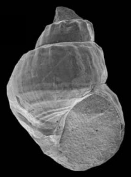 Photo of an apertural view of a holotype of Provanna alexi from lower Middle Miocene Chikubetsu Formation (locality 1), Japan. A. JUE 15904.